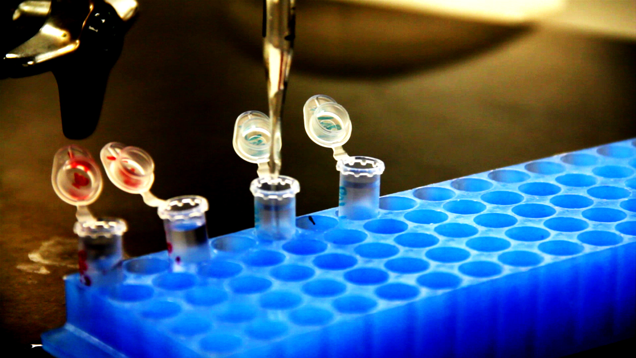 Hinge-top vials of something red (blood?) being filled by pipette on a plastic vial rack. Photo taken at the University of Wisconsin-Madison.